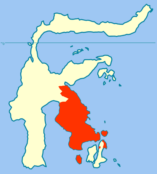 Extension of Bungku-Tolaki languages according to Mead (1998).